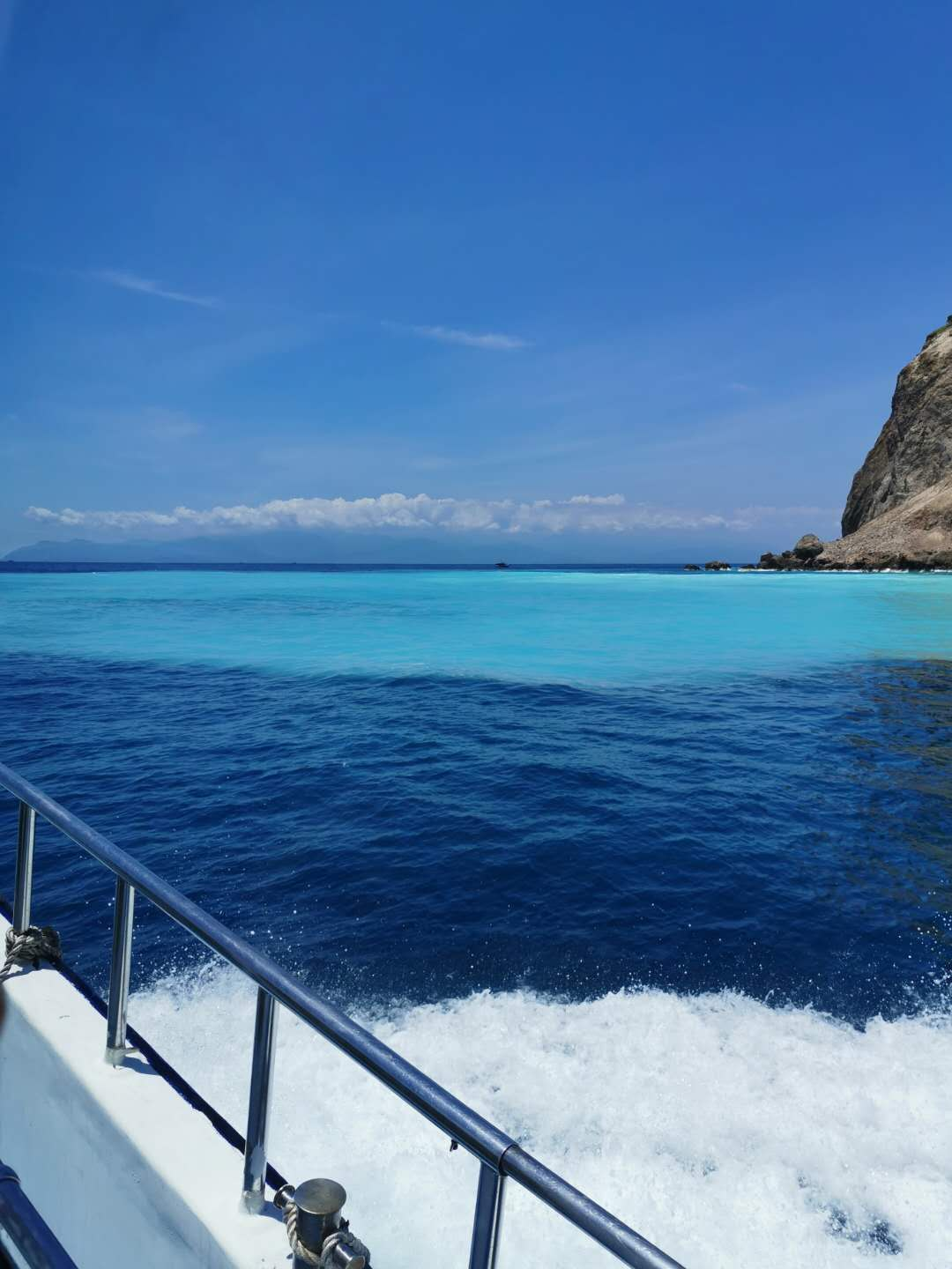 Hydrothermal vents.